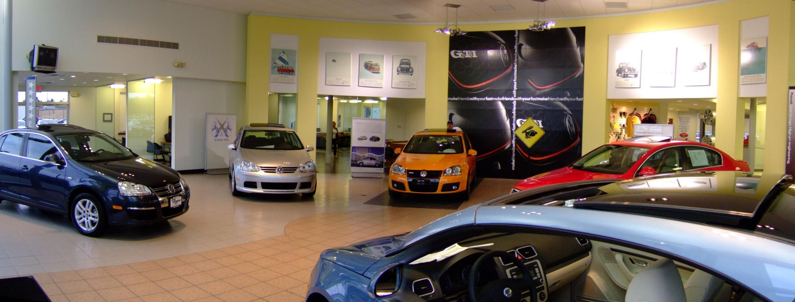 A Volkswagen Showroom